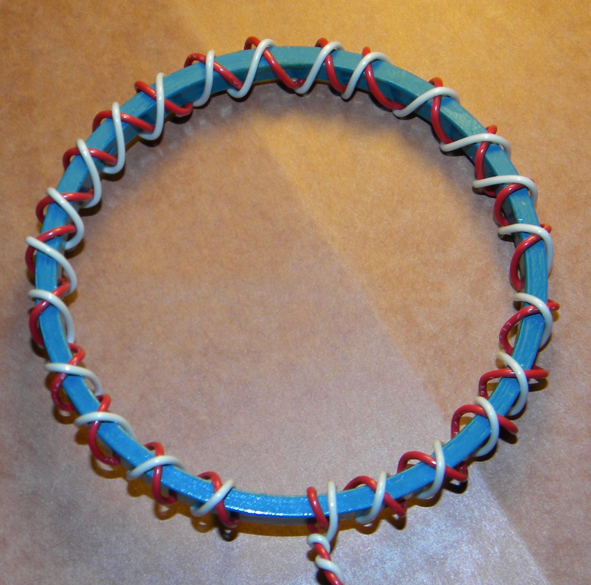 A return winding added to the simple winding cancels the circumferential current. The gap at the end of the winding is exaggerated to make it obvious.